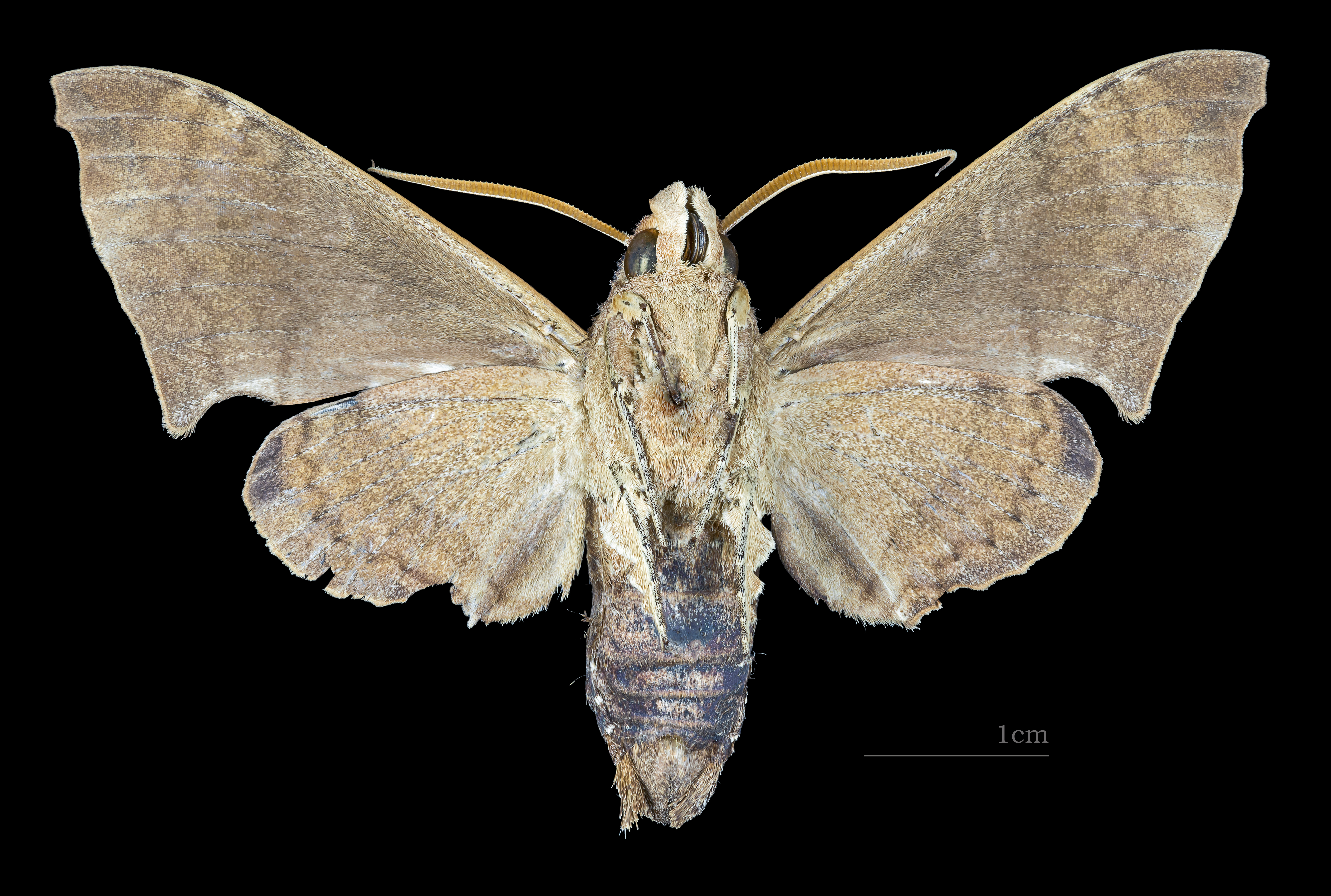 Pachygonidia subhamata - △ Ventral side